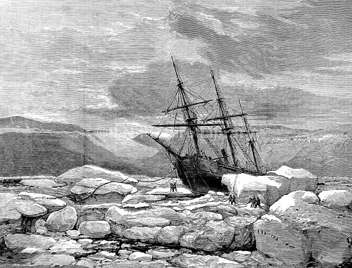 HMS Alert (1856) pushed aground by ice, Radmore Harbour, 1875-1876